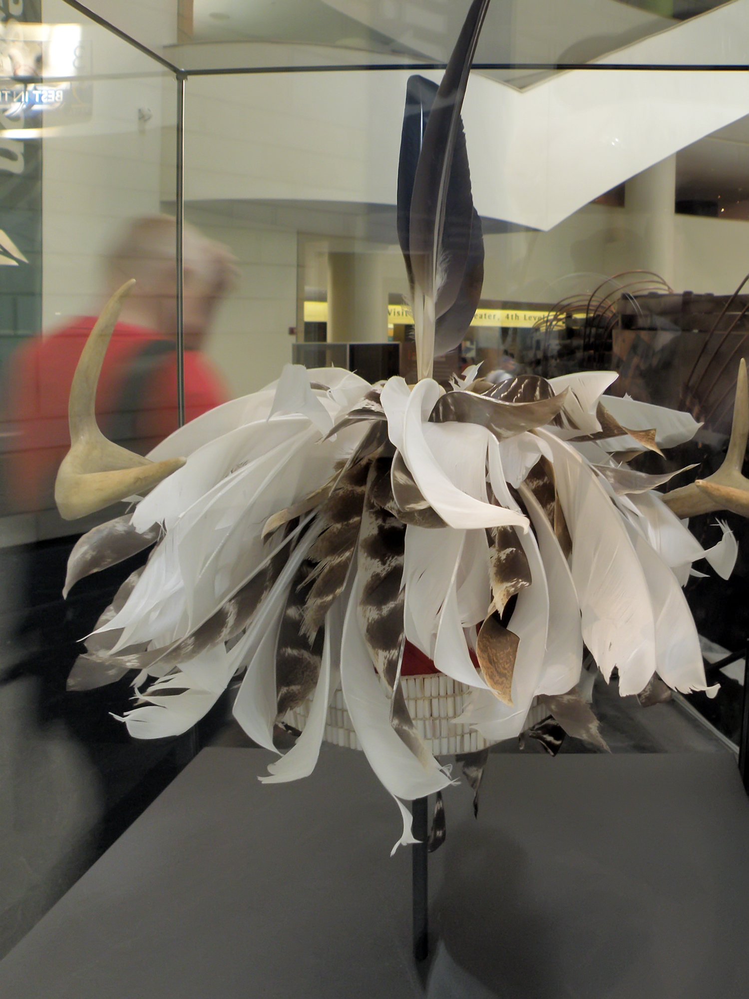 National Museum of the American Indian, Washington, D.C.